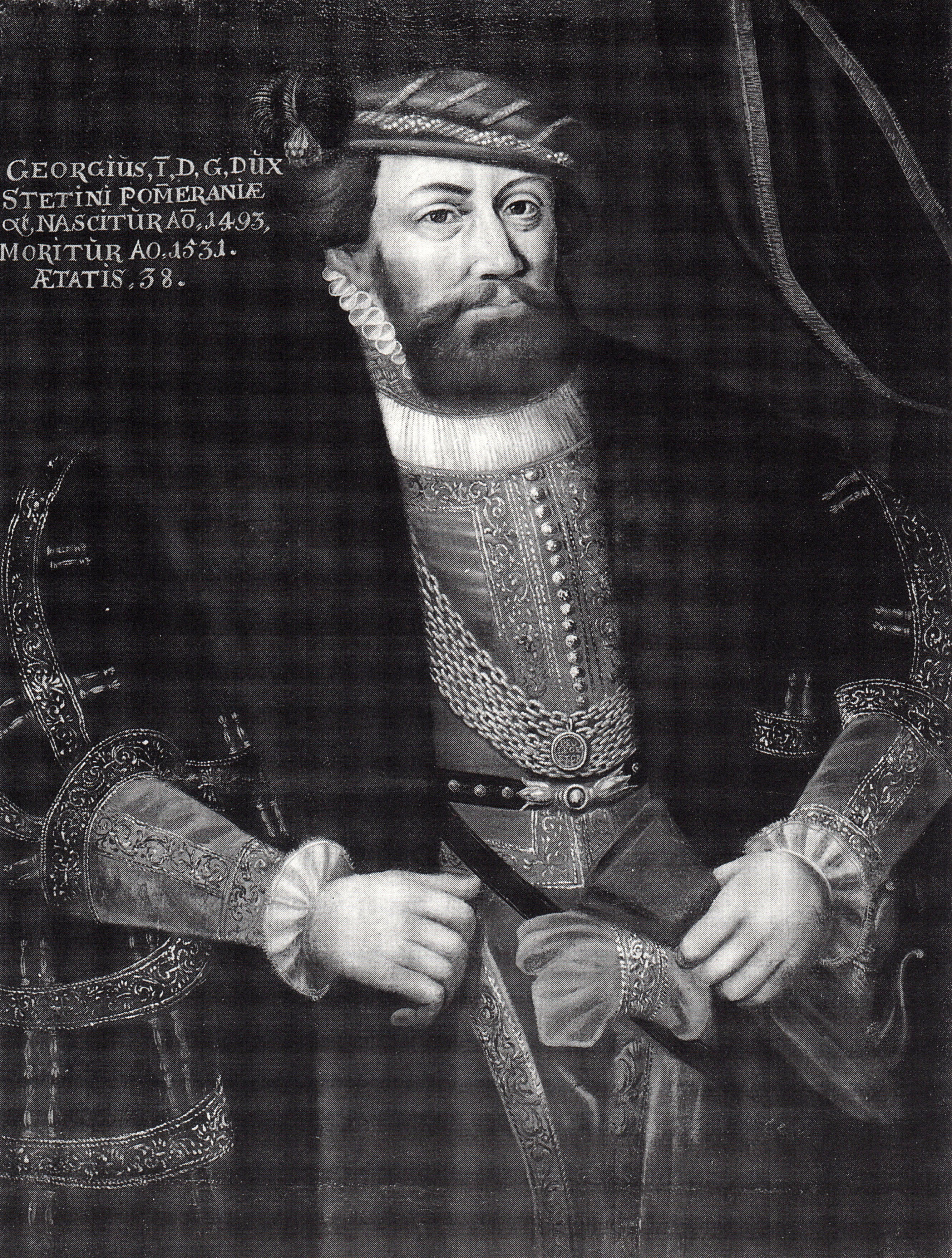 George I, Duke of Pomerania